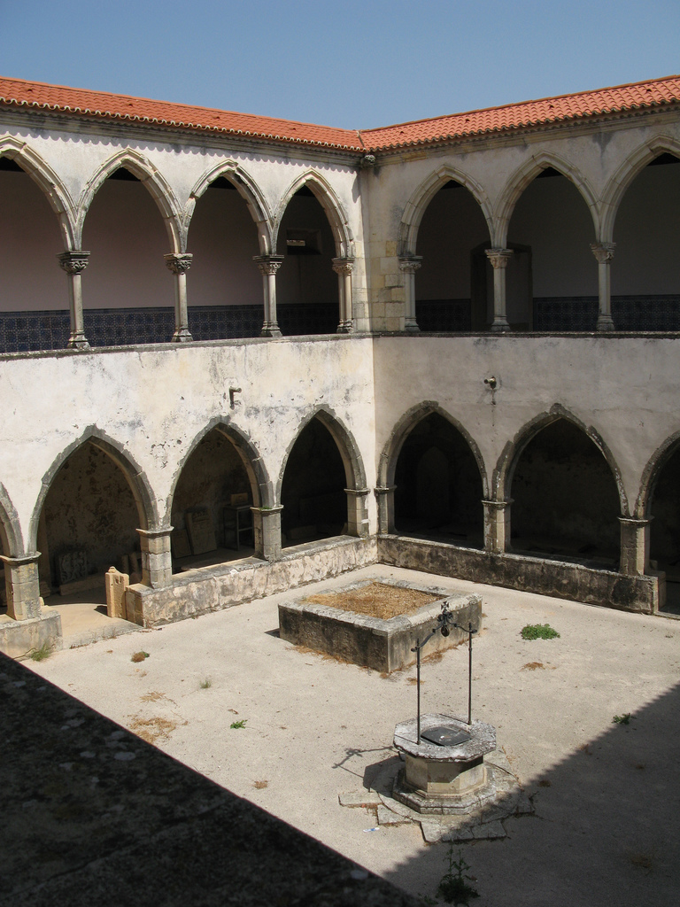 Gothic Lavagem cloister of Christ Convent, Tomar